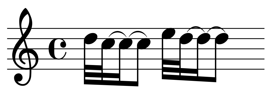 The acciaccatura. (See ornament).